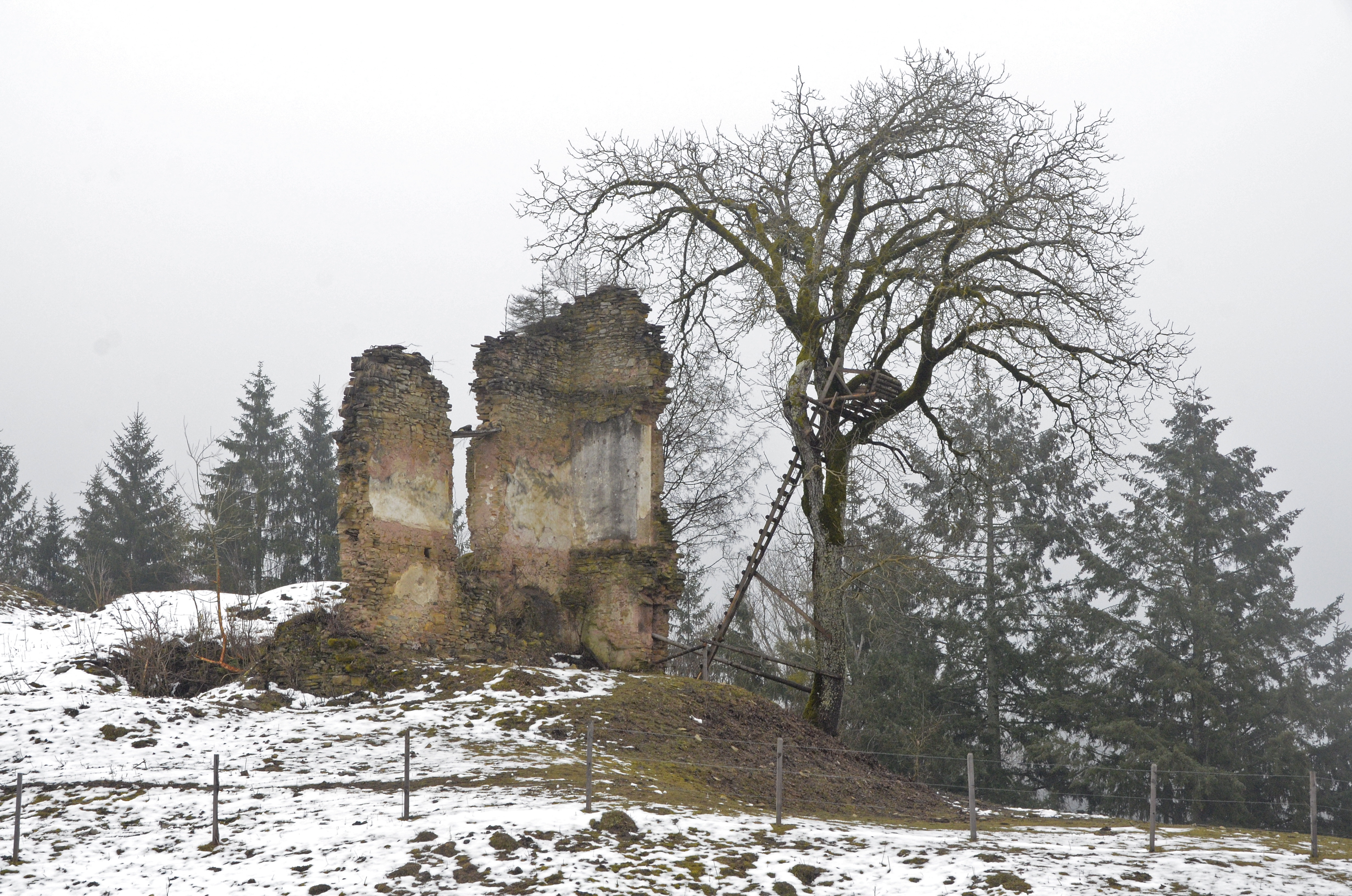 Ruins of the medieval castle Gillitzstein on the Saualpe road at Saint Oswald, market town Eberstein, district Sankt Veit an der Glan, Carinthia / Austria / EU